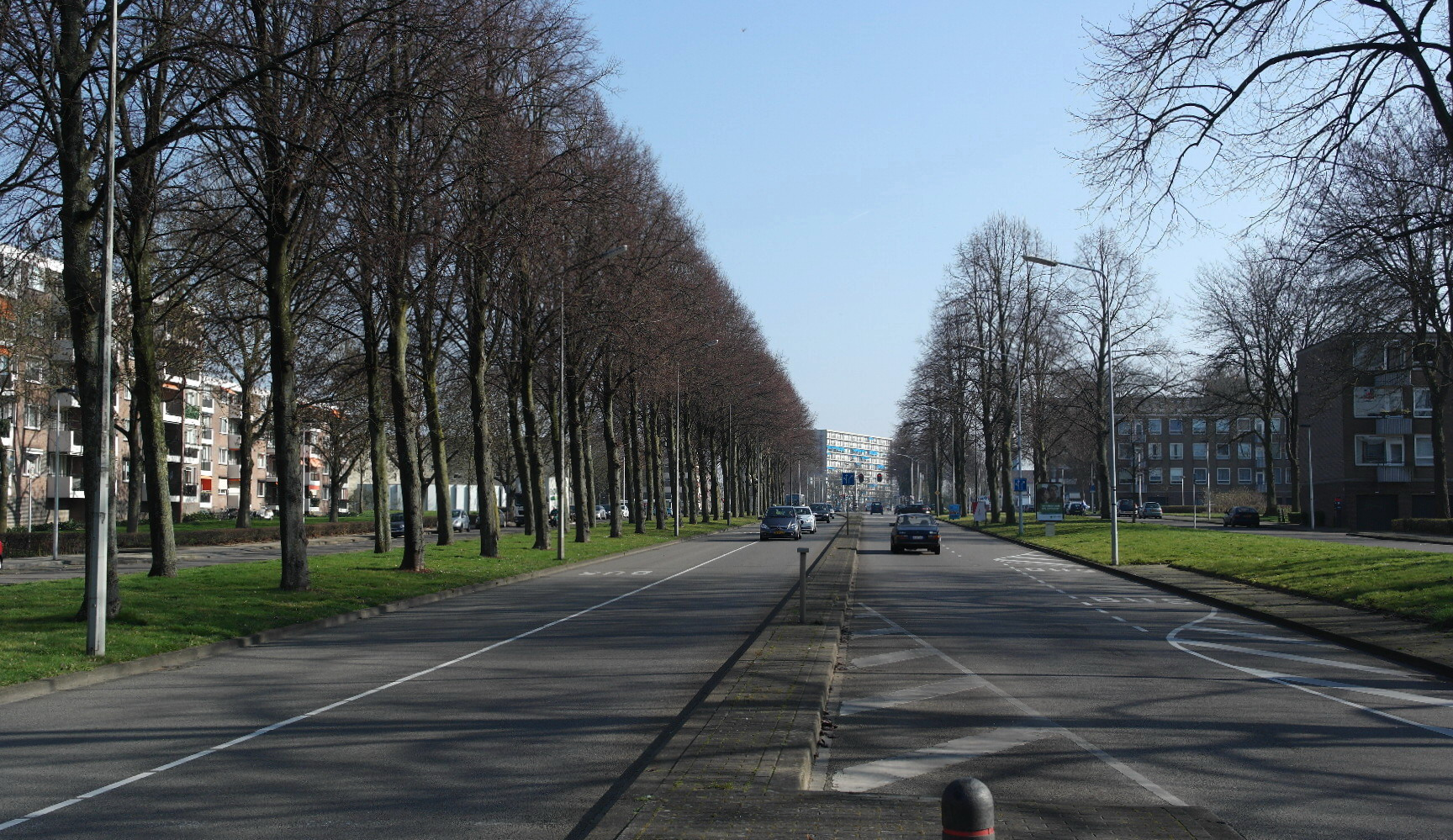 Maastricht, the Netherlands. View of Via Regia, the main traffic artery from West-Maastricht to Belgium.